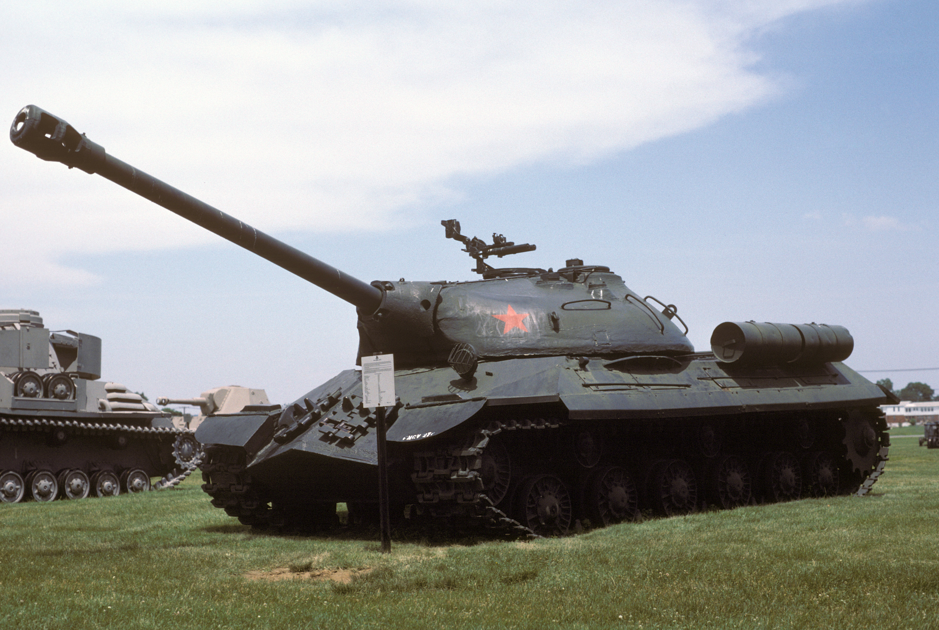 A Soviet JS-3 Stalin heavy tank on display at the US Army Aberdeen Proving Grounds. Location: ABERDEEN, MARYLAND (MD) UNITED STATES OF AMERICA (USA)